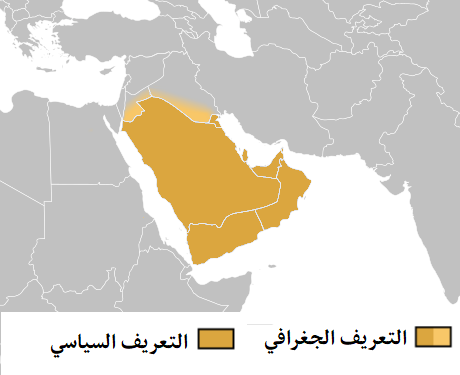 Arabian peninsula definition.PNG with Arabic text. The original file is in Public Domain.